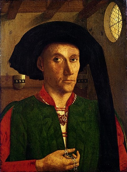 Edward Grimston was a diplomat in the service of Henry VI, King of England. He holds a chain of linked SSs, a Lancastrian device, in his hands. On the wall of the room behind him are two shields with his coats of arms.